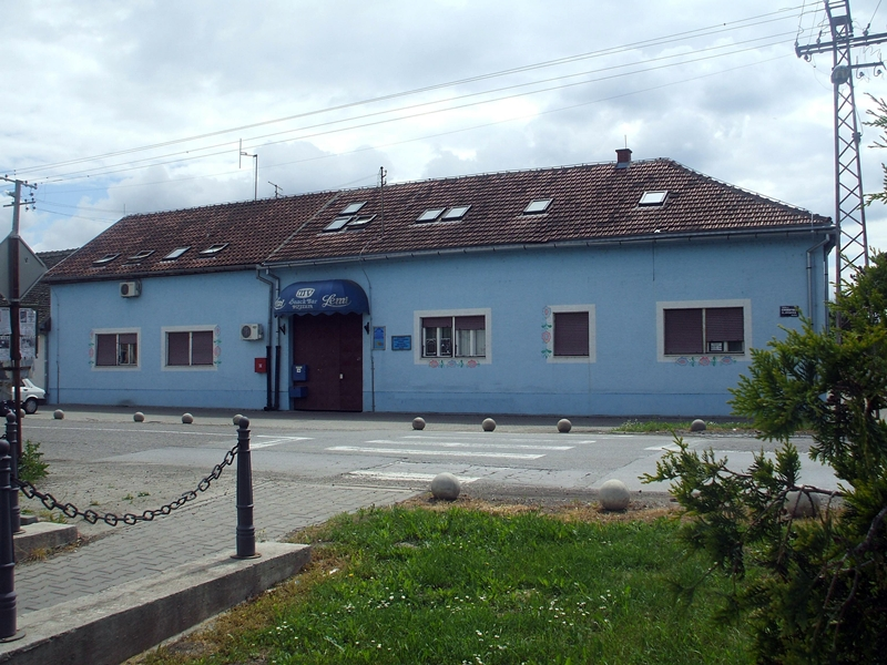 Cultural Information Centre Kisach